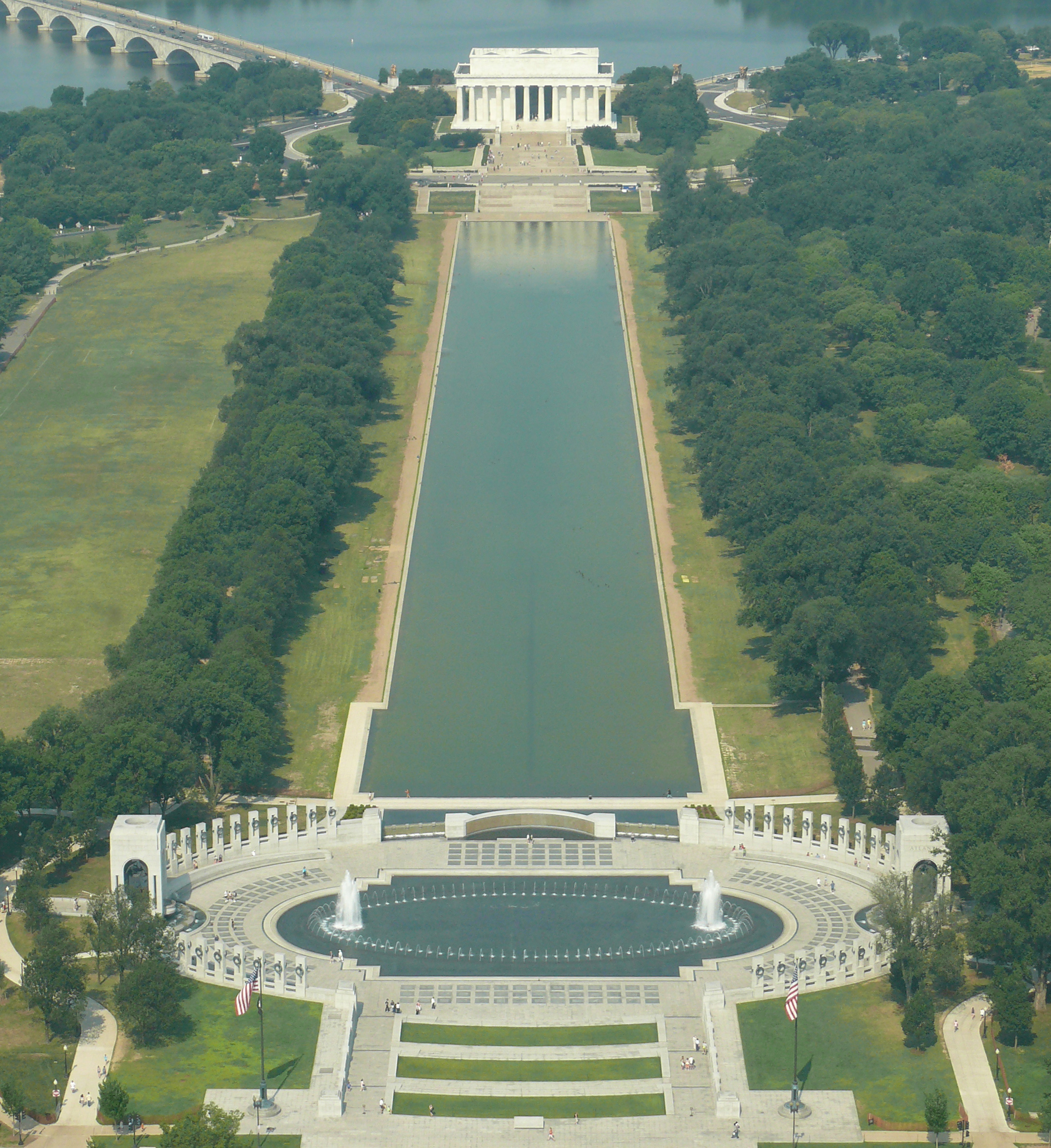 Part of the National Mall with World War II Memorial, reflectihg pool and Lincoln Memorial. The Lincoln Memorial is a United States Presidential memorial built to honor the 16th President of the United States, Abraham Lincoln. The Lincoln Memorial Reflecting Pool is the largest of Washington, D.C.'s reflecting pools. Located directly east of the Lincoln Memorial, it is a long, rectangular pool visible in many photographs of the Washington Monument. It is lined by walking paths and shade trees on both sides. It reflects both the Washington Monument and the Lincoln Memorial. The U.S. National World War II Memorial is a National Memorial dedicated to Americans who served in the armed forces and as civilians during World War II. The final design consists of 56 pillars, each 5 m tall, arranged in a semicircle around a plaza with two 13 m arches on opposite sides. Two-thirds of the 7.4-acre (30,000 m2) site is landscaping and water. Each pillar is inscribed with the name of one of the 48 U.S. states of 1945, as well as the District of Columbia, the Alaska Territory and Territory of Hawaii, the Commonwealth of the Philippines, Puerto Rico, Guam, American Samoa, and the U.S. Virgin Islands. The northern arch is inscribed with "Atlantic"; the southern one, "Pacific."